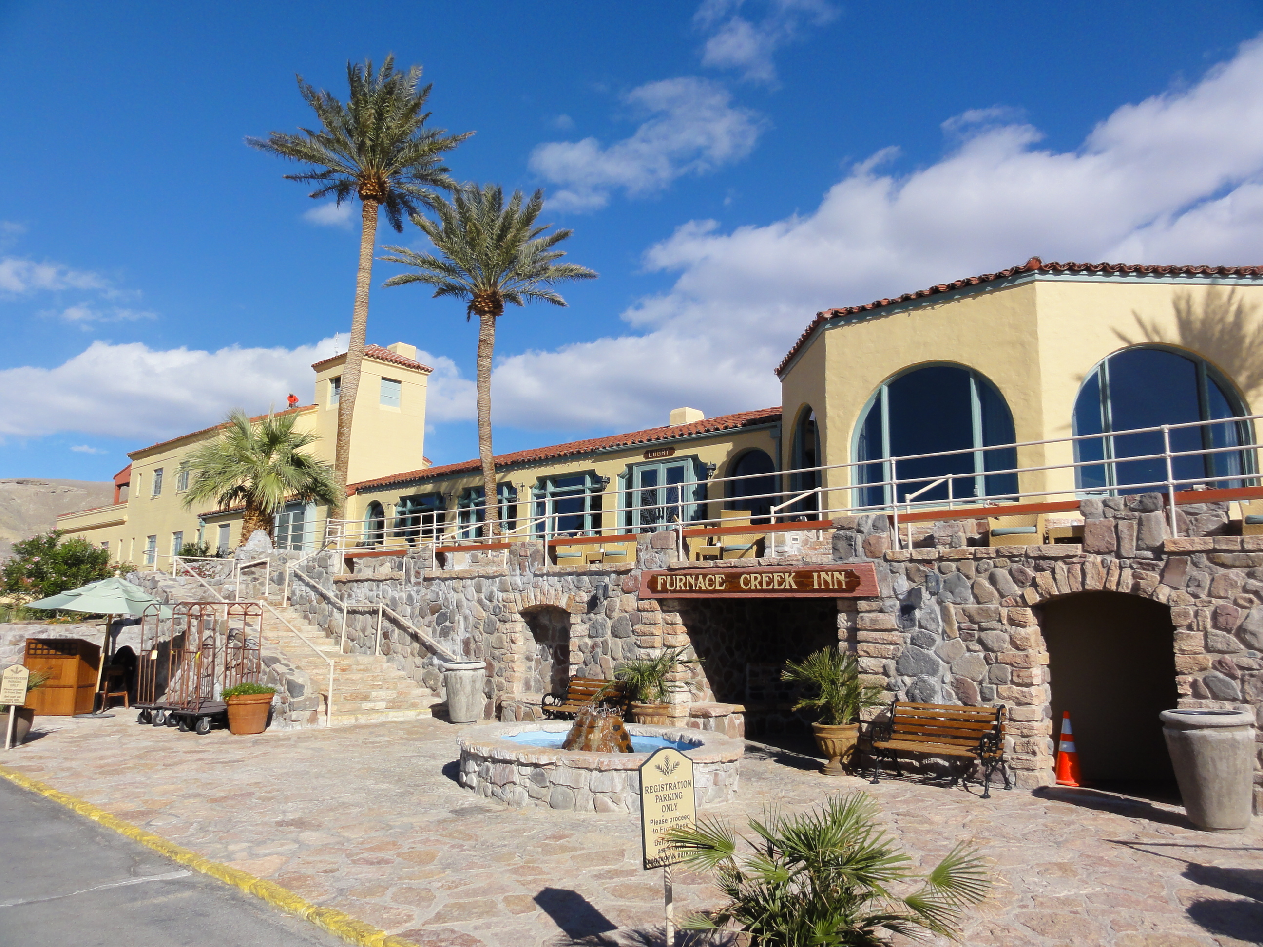 The Furnace Creek Inn and Ranch Resort is a privately owned luxury resort in California's Death Valley National Park operated by Xanterra.